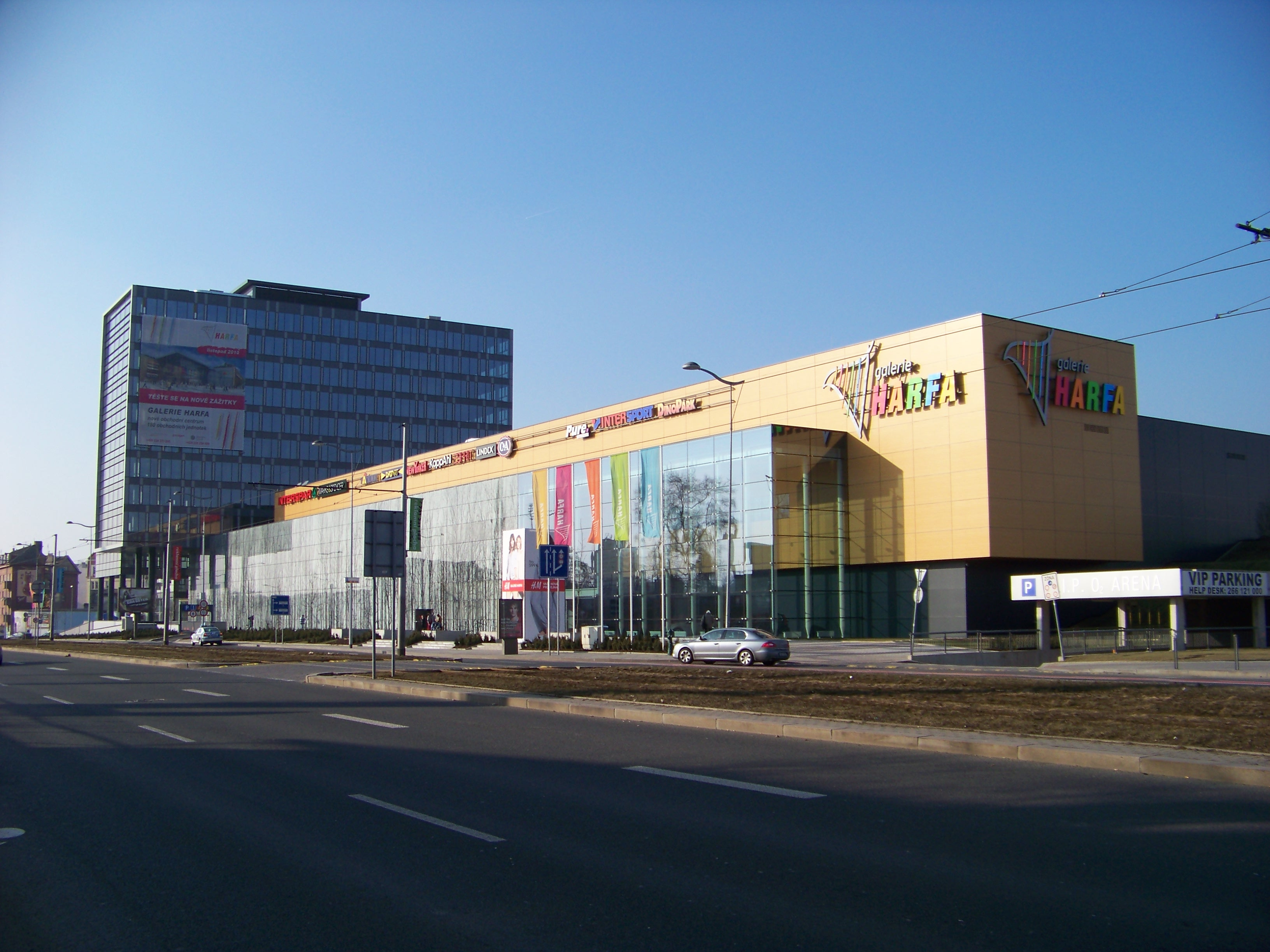 Prague-Libeň, the Czech Republic. Českomoravská street, Galerie Harfa and Harfa Office Park. s - Google Maps - Google Earth